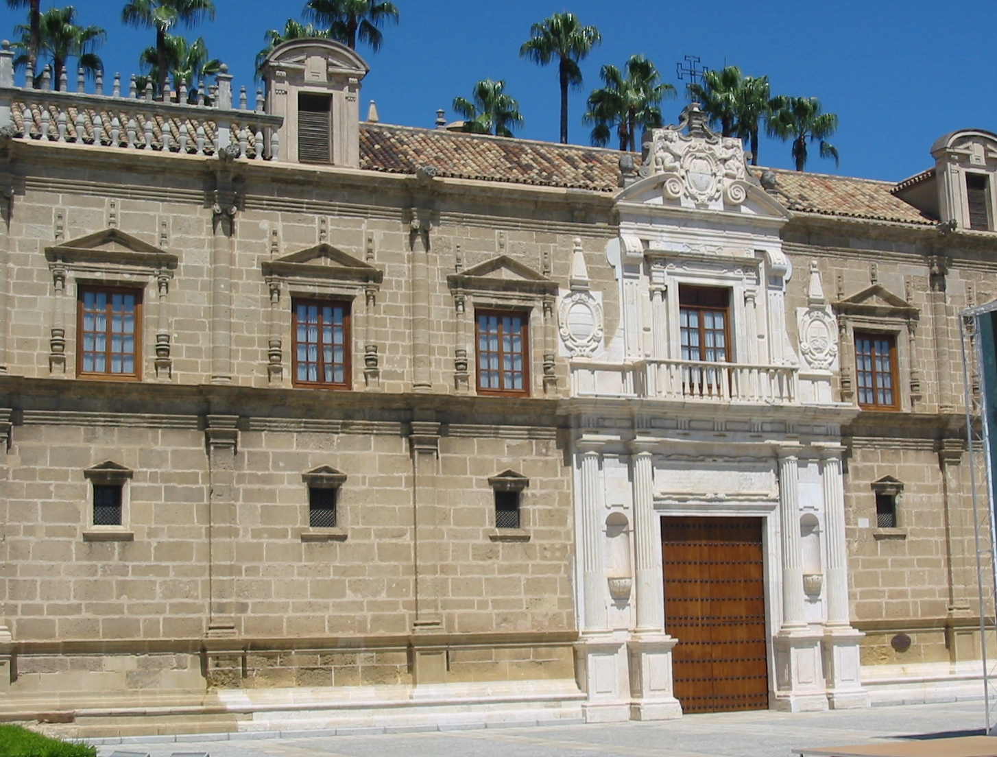 Former Hospital de las Cinco Llagas, currently housing the Andalusian Parliament. Photo by E Asterion u talking to me? 18:02, 30 August 2006 (UTC)